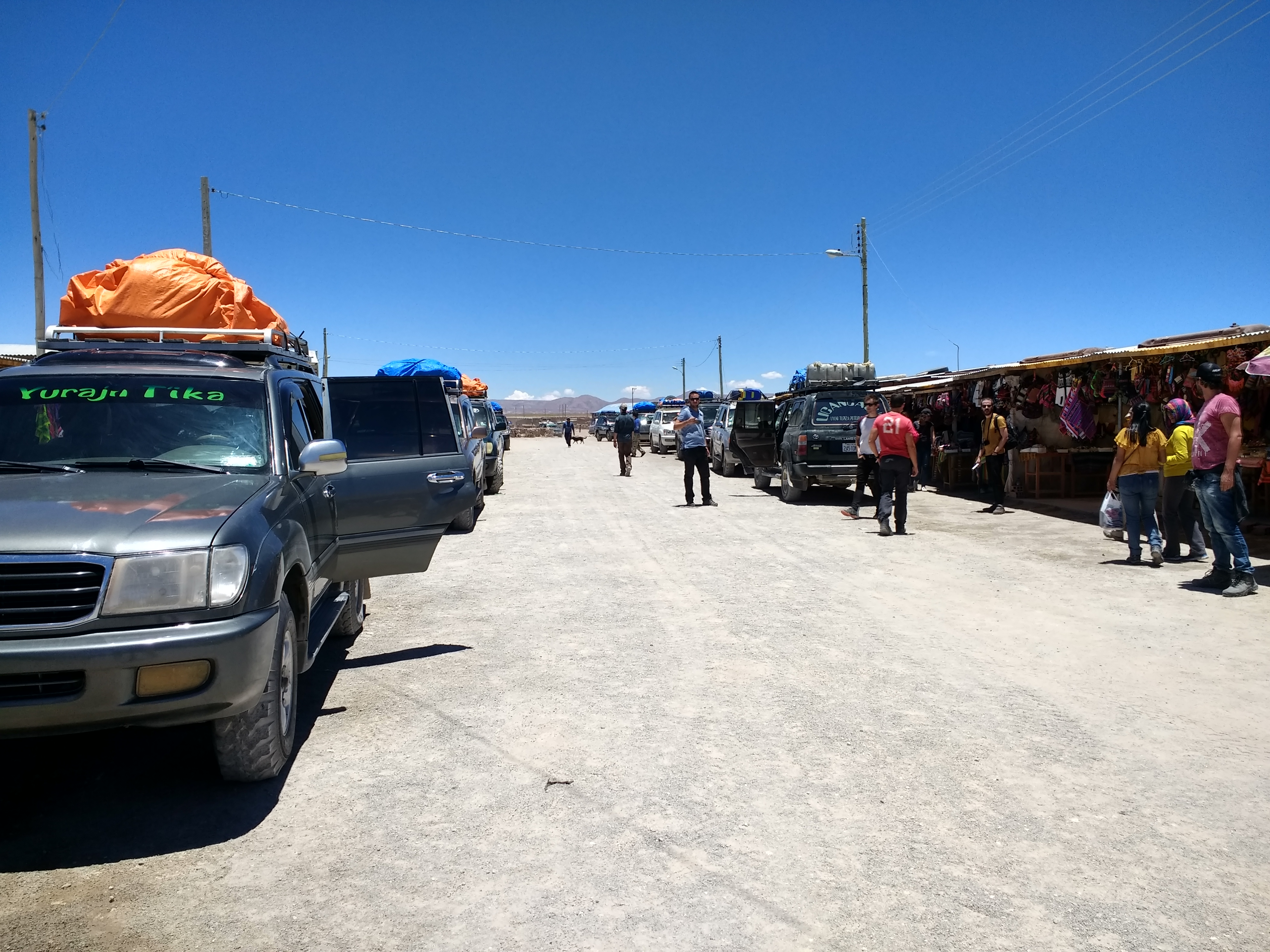 Tourists and tour vehicles in Colchani, Bolivia.